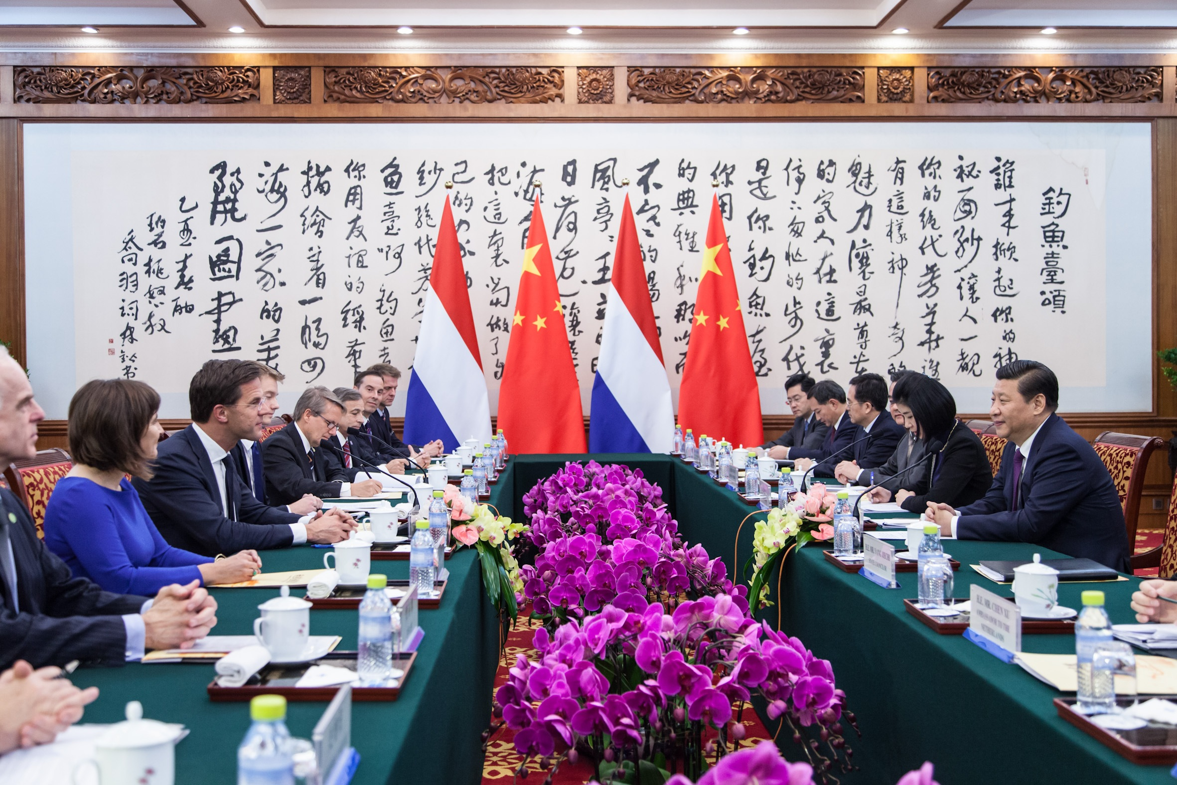 President Xi Jinping ontvangt minister-president Rutte en minister Ploumen op de eerste dag van hun bezoek aan China.